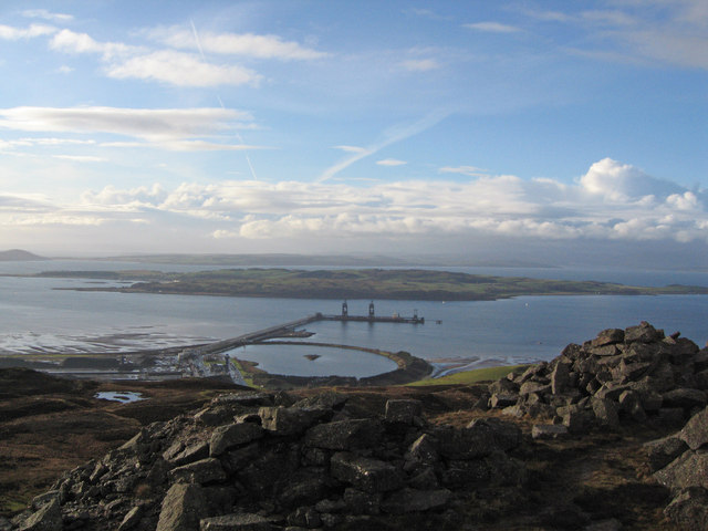 Hunterston Ore Terminal from Kaim Hill Hunterston Ore Terminal and jetty from the disused quarry on Kaim Hill.